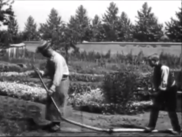 Le Jardinier (l'Arroseur arrosé), from the movie by brothers Lumière, 1895